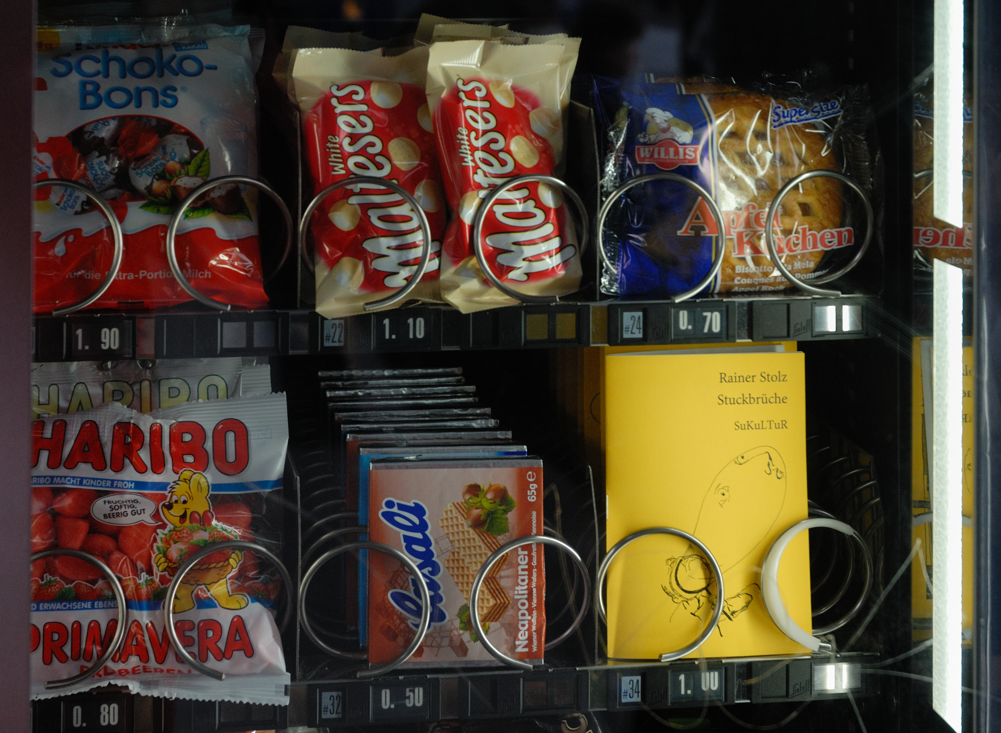 Book "Stuckbrüche" by Rainer Stolz in a vending machine.